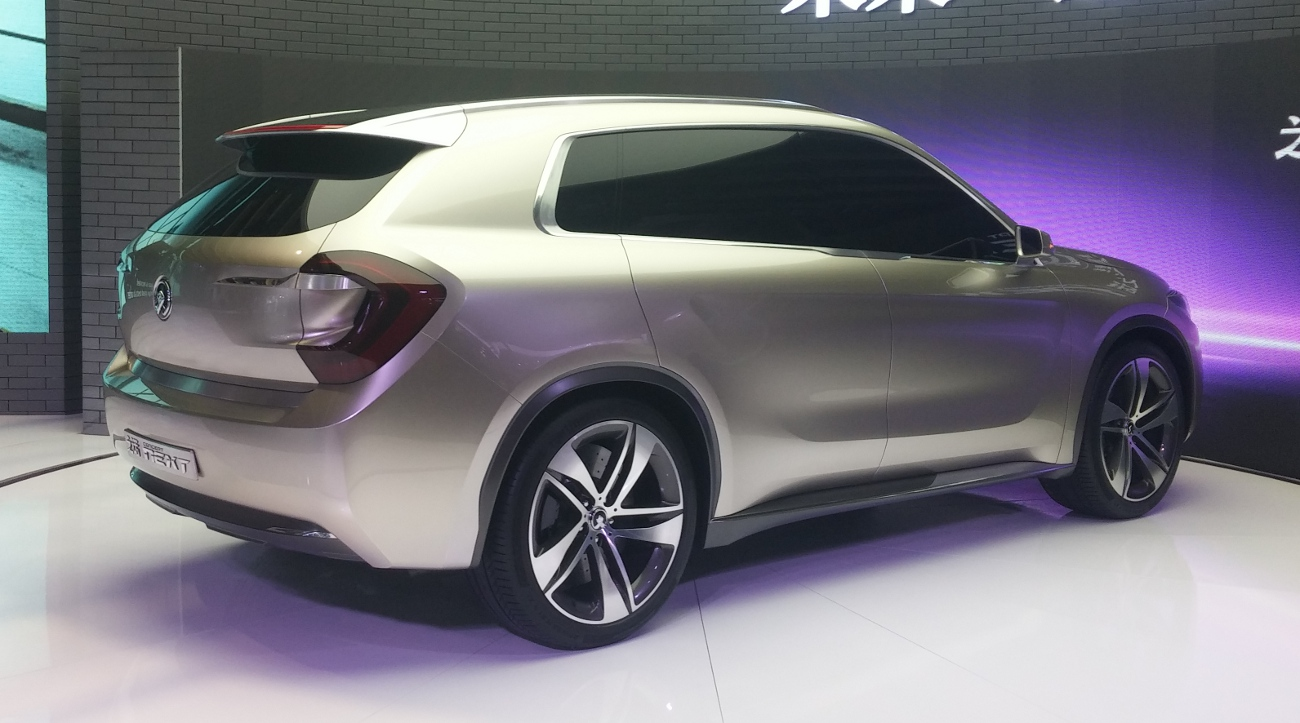 Zinoro Concept Next photographed at the Auto Shanghai 2015, Shanghai, China.